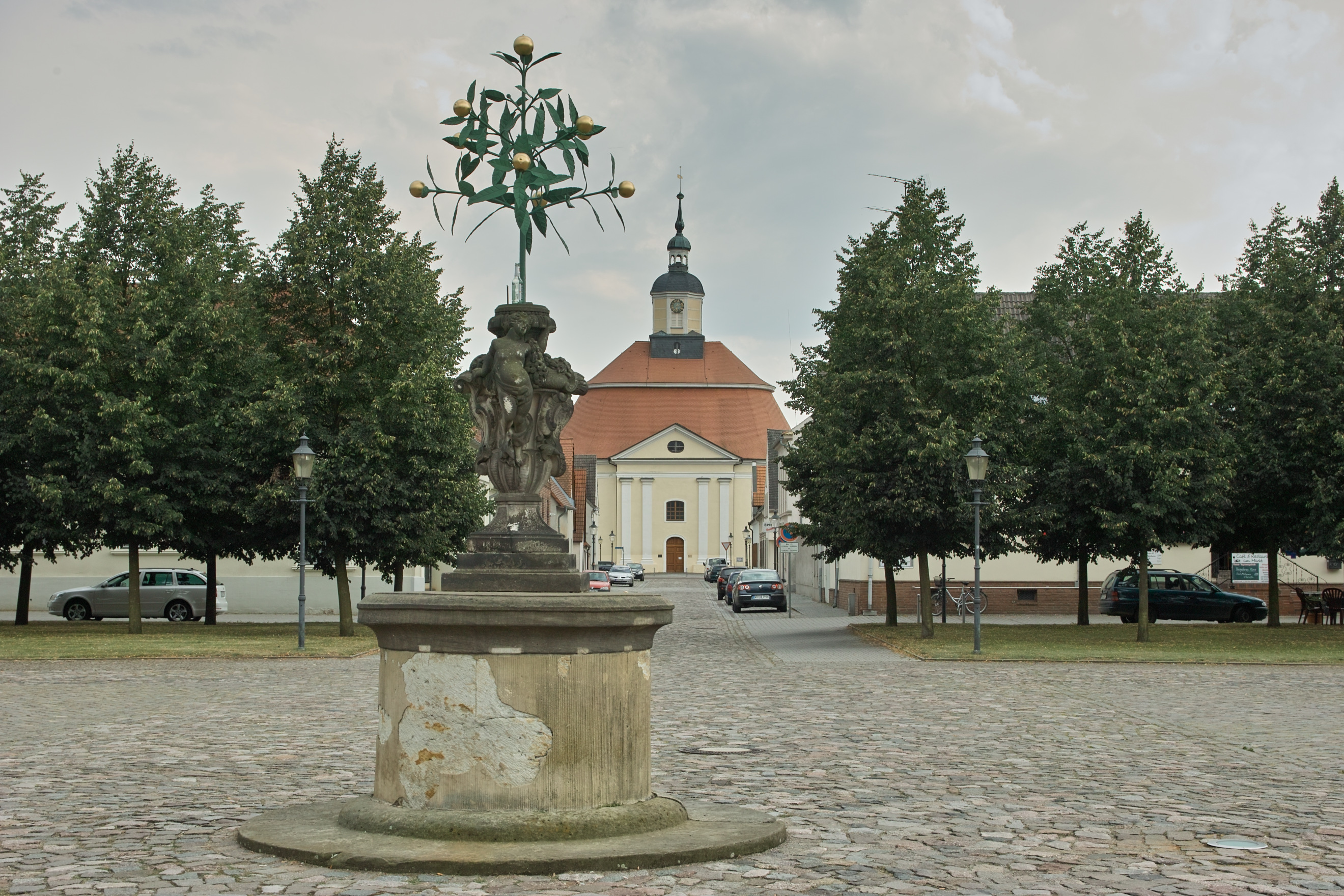 View from the "Marktplatz" with the symbol of the House of Oranie to the "Stadtkirche".